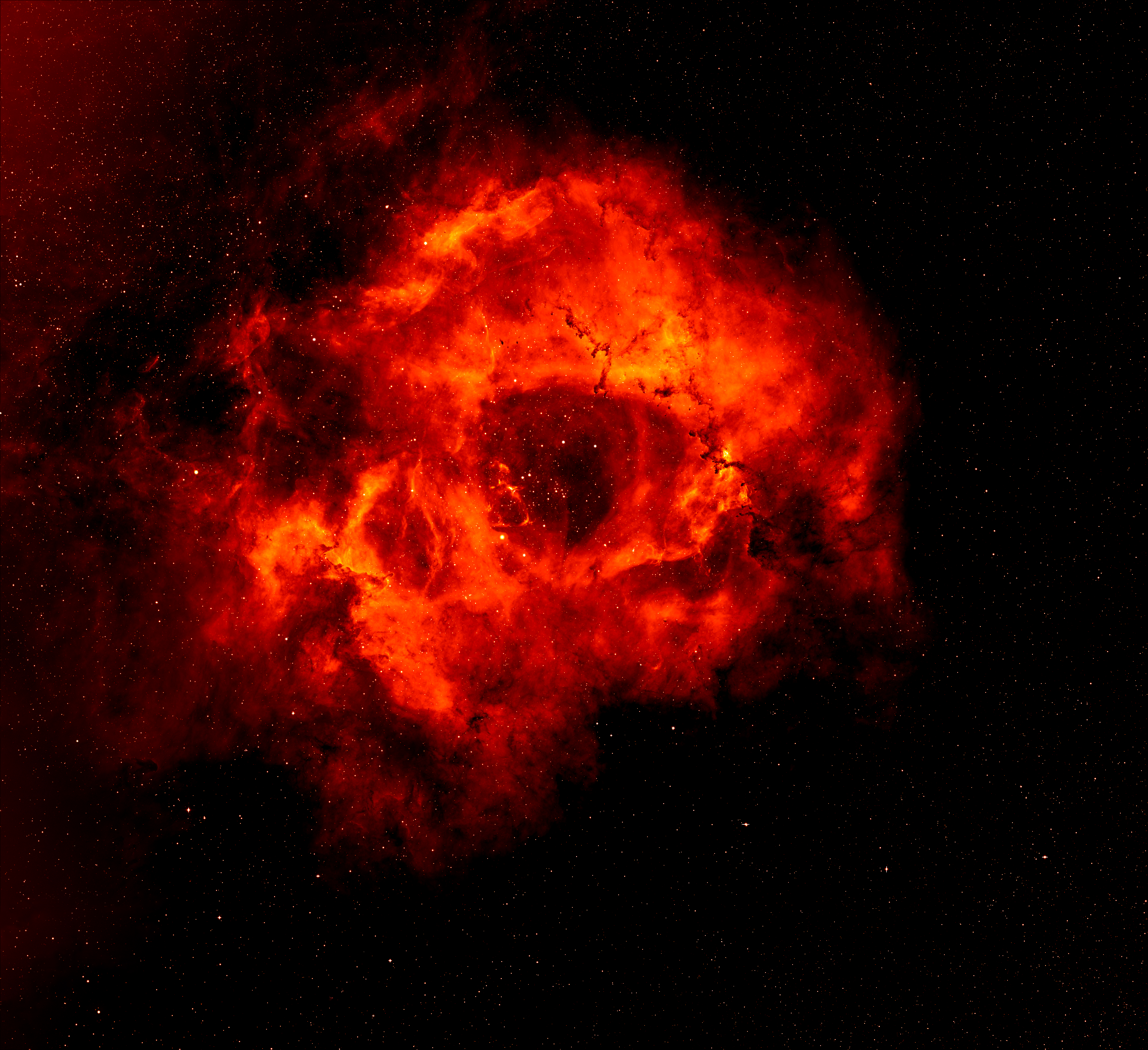 Rosette nebula. Original text: (from en.wikipedia) These images are released into the public domain for private use or for use in the promotion of the IPHAS survey. If any image or images are redisplayed or reproduced, please accompany the image or images with the following acknowledgement: "Image based on data obtained as part of the INT Photometric H-Alpha Survey of the Northern Galactic Plane, prepared by Nick Wright, University College London, on behalf of the IPHAS Collaboration". Description: This image of the Rosette Nebula (NGC 2237) is thought to be the most-detailed ever produced. Compiled from data taken from IPHAS, the Isaac Newton Telescope Photometric Hydrogen-Alpha Survey of the Northern Galactic Plane, the image spans four square degrees, about twenty times the size of the full moon. Resolution is 1 arcsecond per pixel, and North is up, east is left. Technical information: Telescope: 2.5-m Isaac Newton Telescope. Instrument: Wide Field Camera. Detector: EEV. Filters and exposure times: Hα, R.